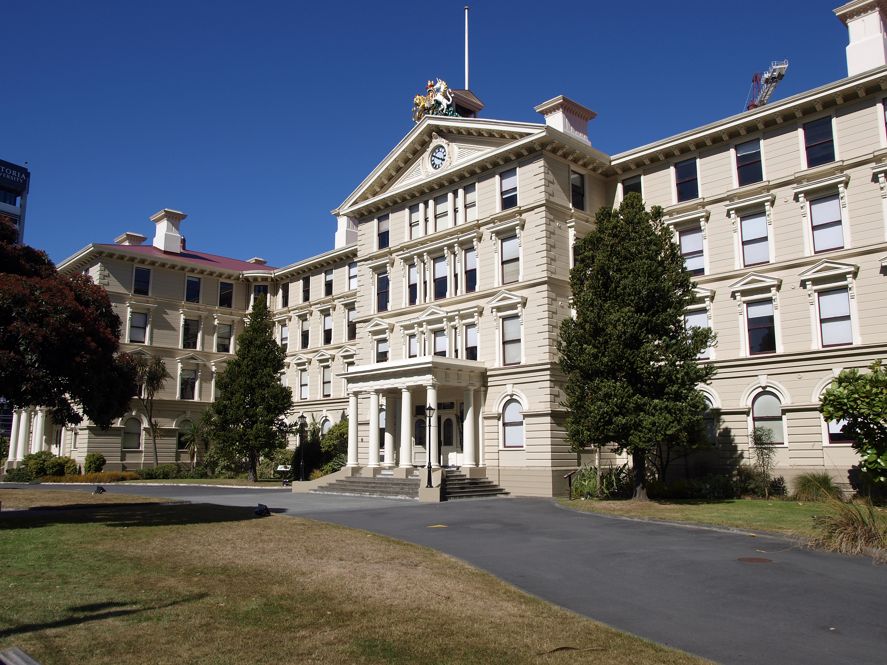 Old Government Building, Wellington, New Zealand (1876)